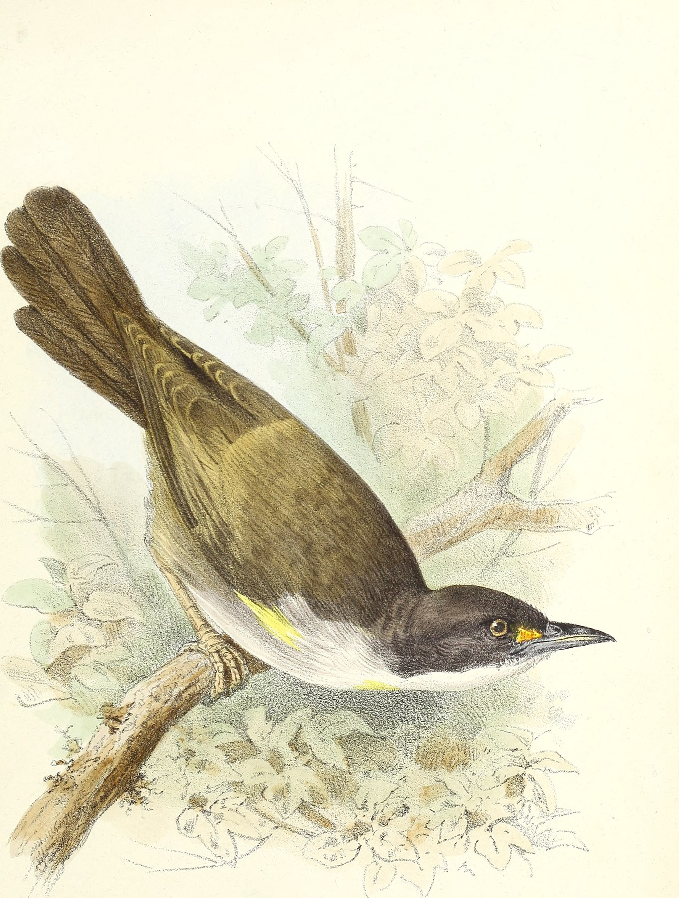 Title: The Birds of Haiti and San Domingo Year: 1885 (1880s) Authors: Cory, Charles Barney; Cory, Charles Barney, 1857-1921 Subjects: Publisher: Boston, U. S Text Appearing Before Image: ' Text Appearing After Image: CALYPTOPHILUS FEUGIVORUS